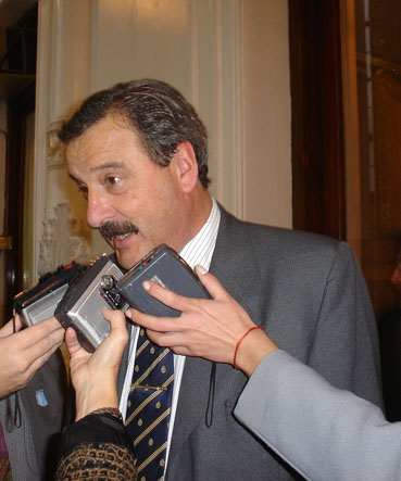 Deputy Pedro Azcoiti